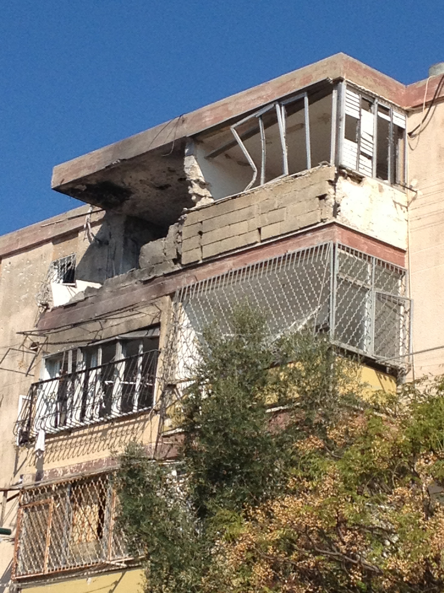 Photos by David Katz / The Israel Project